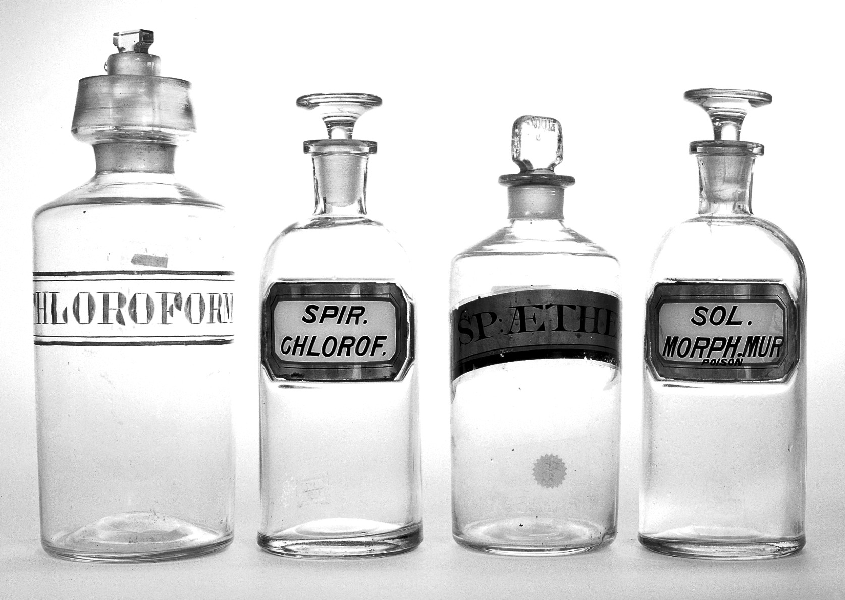 Shop round for chloroform; various bottles 1801-1910 and 1862-63. Wellcome Images Keywords: Chloroform